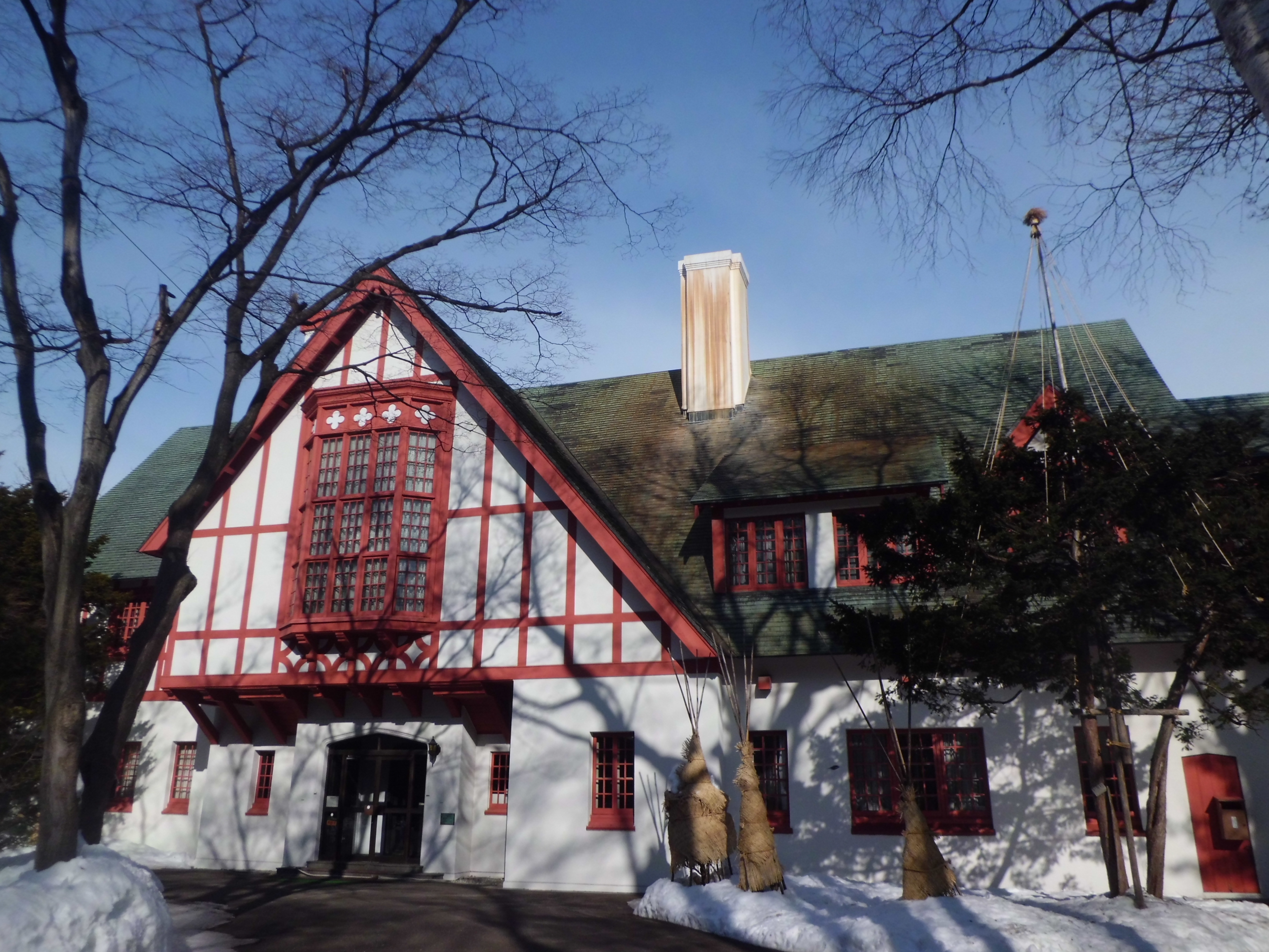 Hokkaido Governor's Official Residence